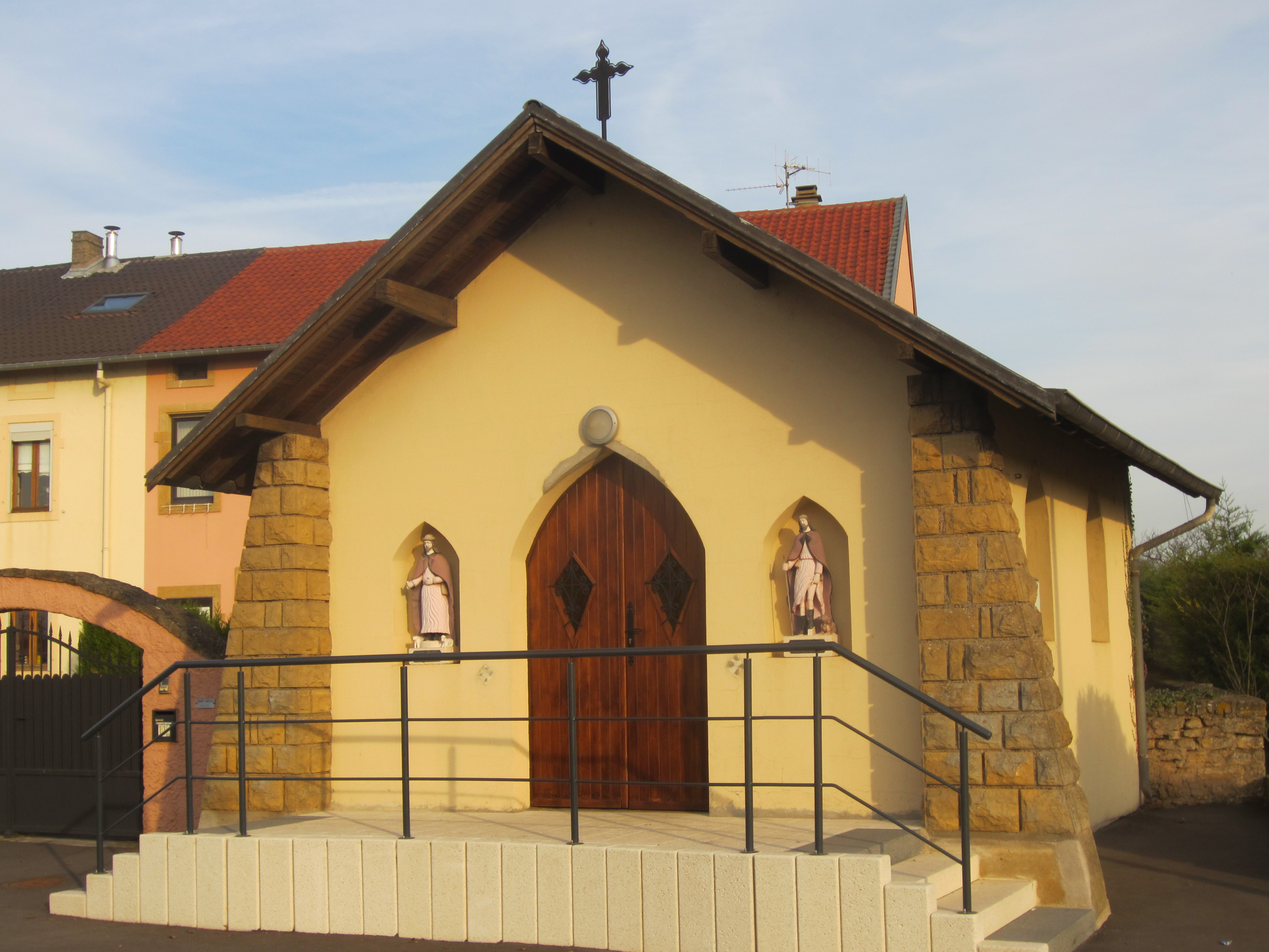 Description chapelle Illange Date23 November 2011Sourcemon appareil photoAuthorAimelaimePermission (Reusing this file) chapelle Illange